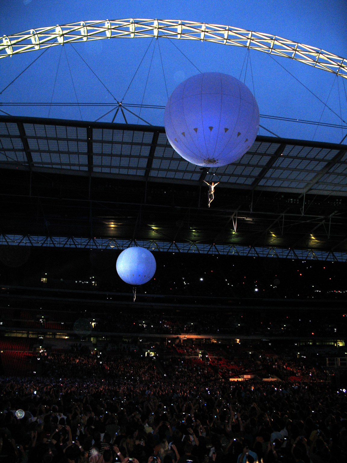 Floating acrobats at Muse's sellout gig in Wembley Stadium.